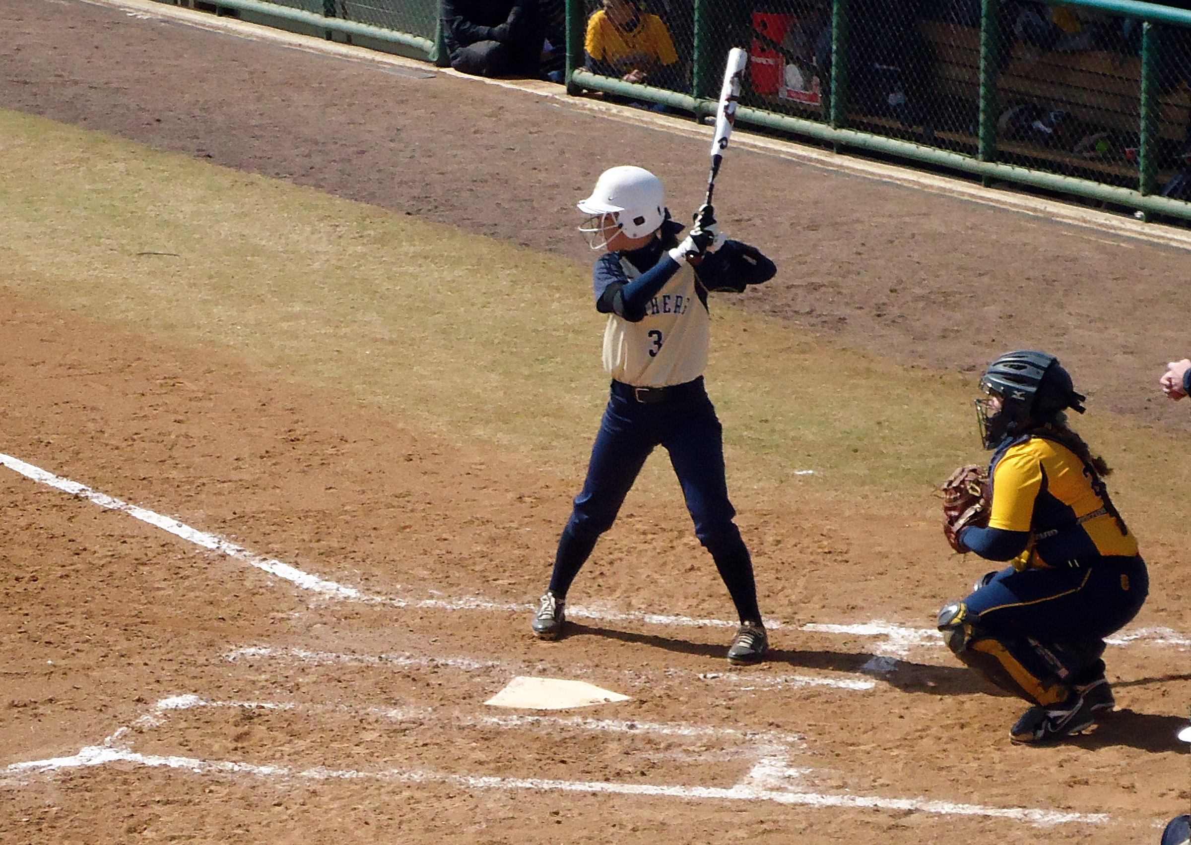 2013 Cherry Blossom Classic Action